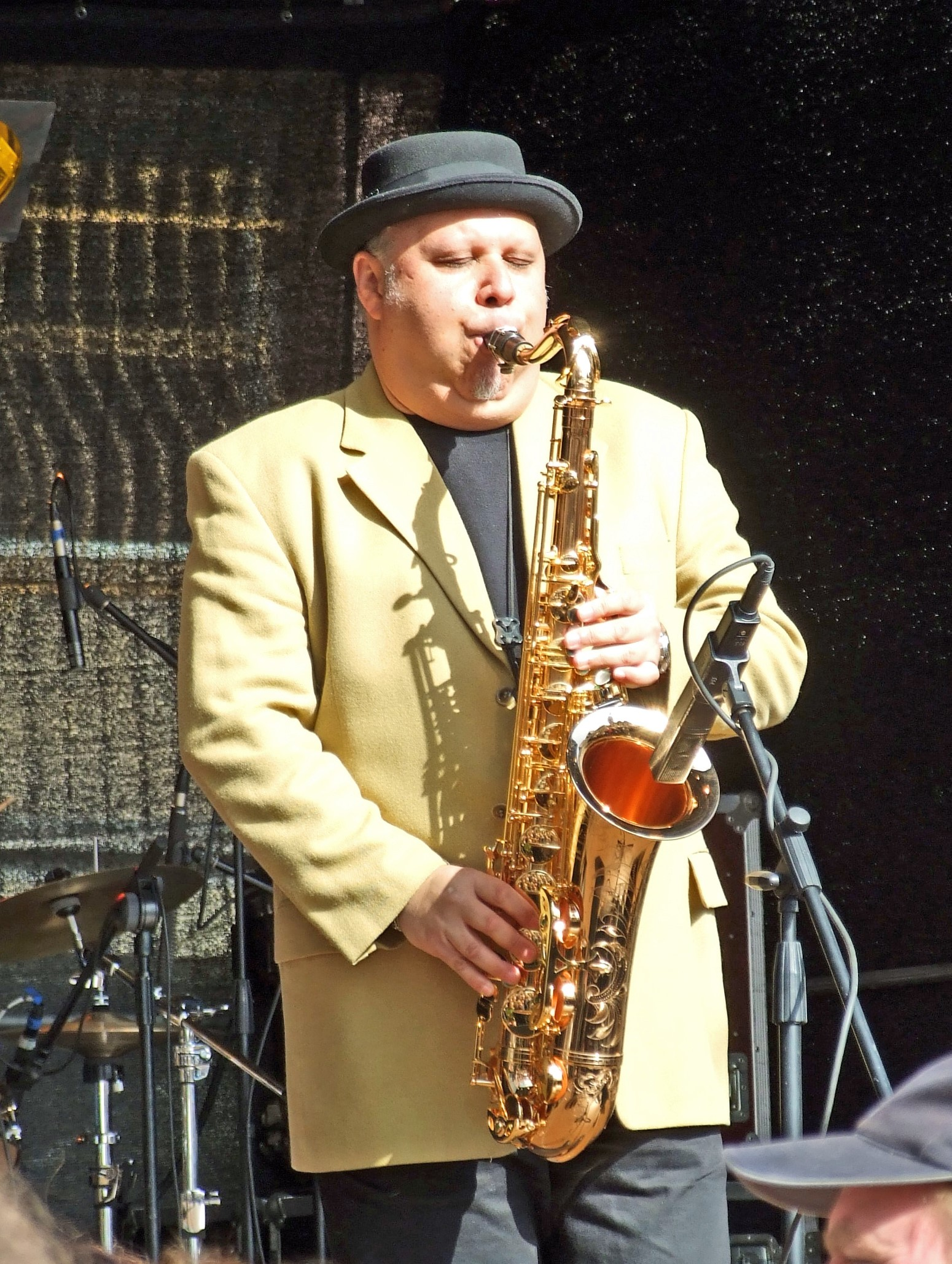 Tony Lakatos (with Paul Kuhn Trio) at "Roemerberg" in Frankfurt am Main